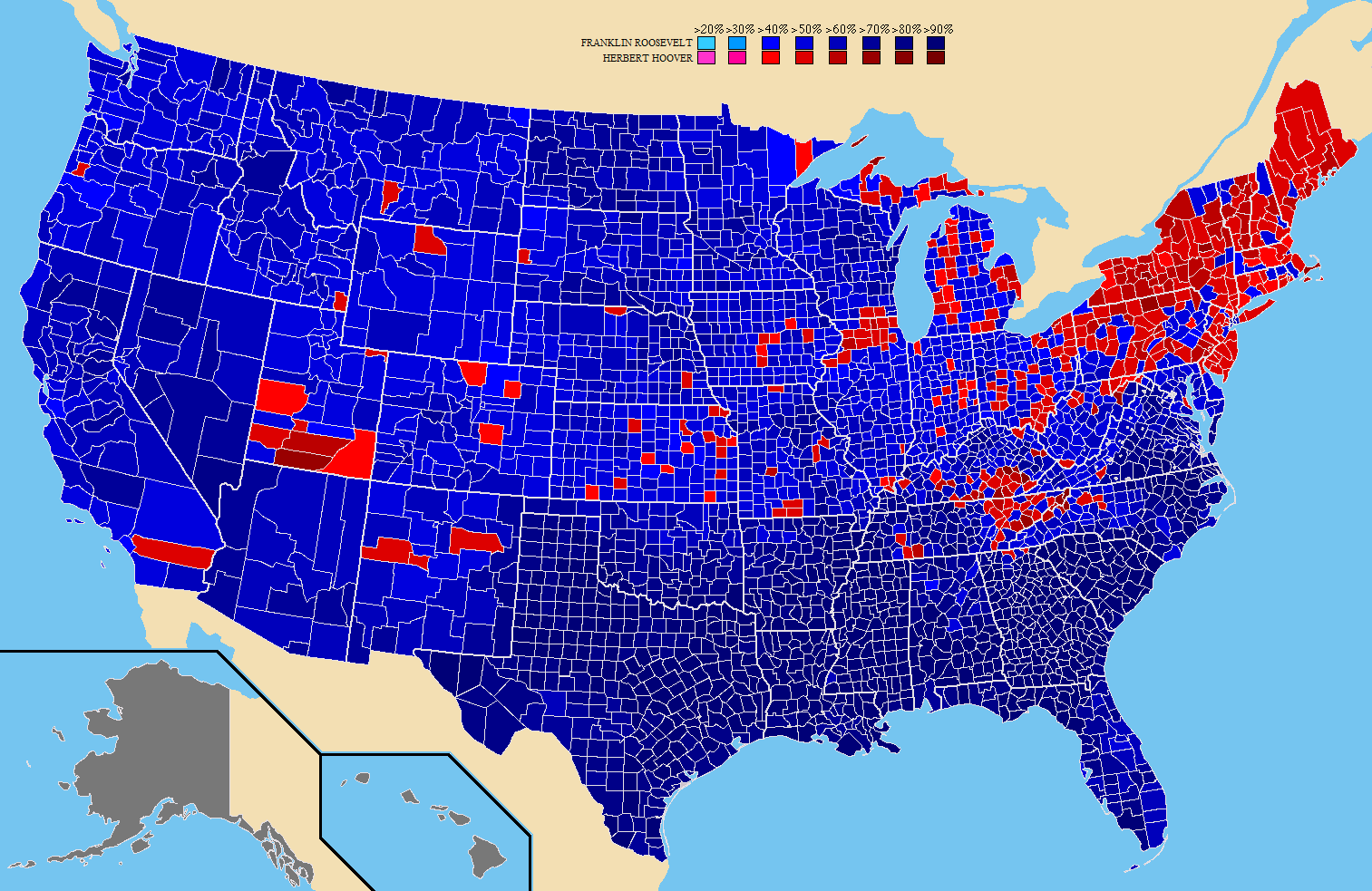 A map of the counties won by each candidate in the United States presidential election.